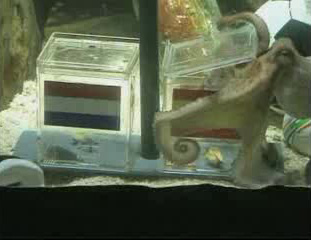 Paul the Octopus correctly predicts a win by Spain over the Netherlands in the 2010 FIFA World Cup final. Screenshot taken from VOA news video.